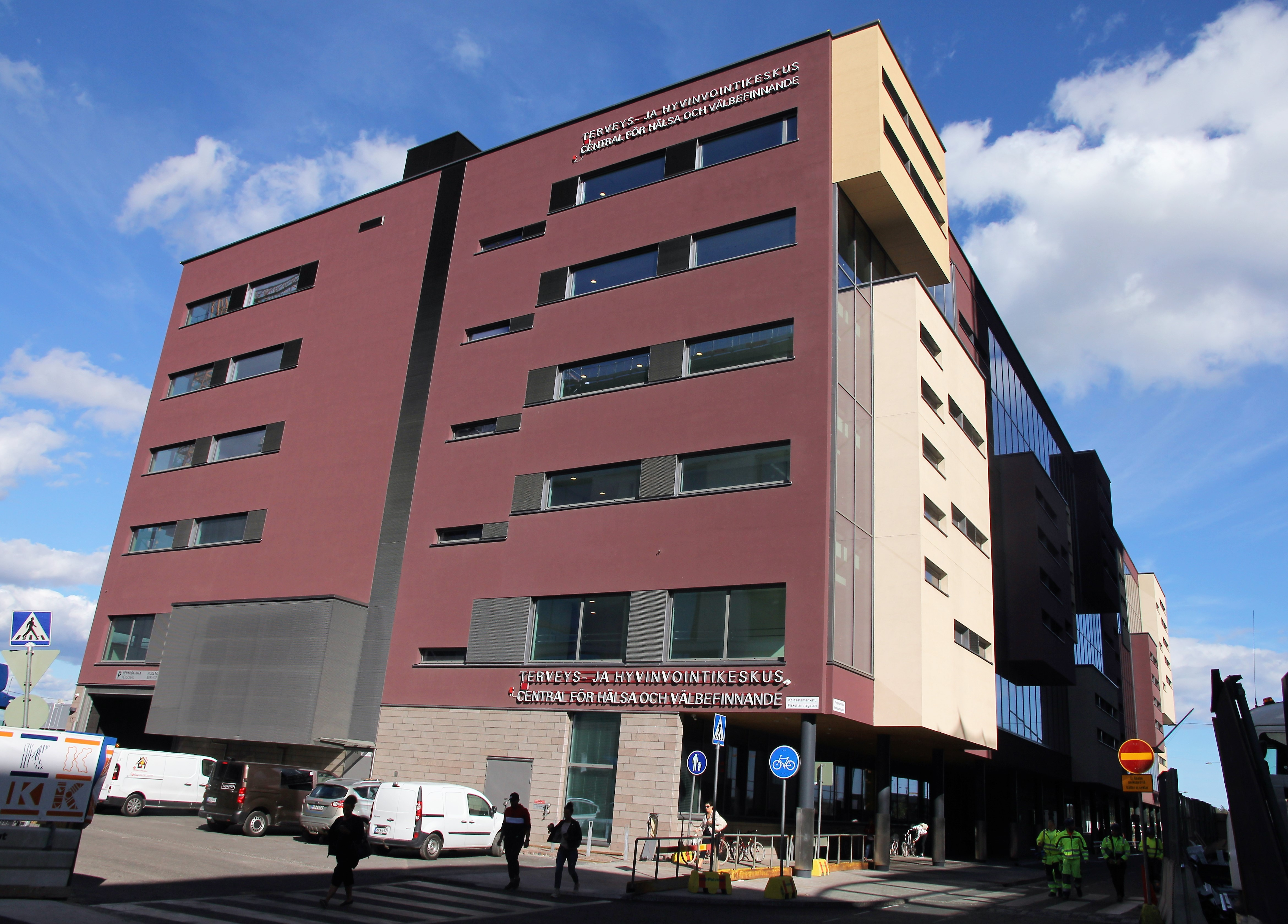 Kalasatama Health and Well-being Centre in Kalasatama subarea of Sörnäinen, Helsinki, Finland. This service centre started its operations on February 5th, 2018 before which three smaller health stations were closed. Address: Työpajankatu 14 A, 00580 Helsinki.